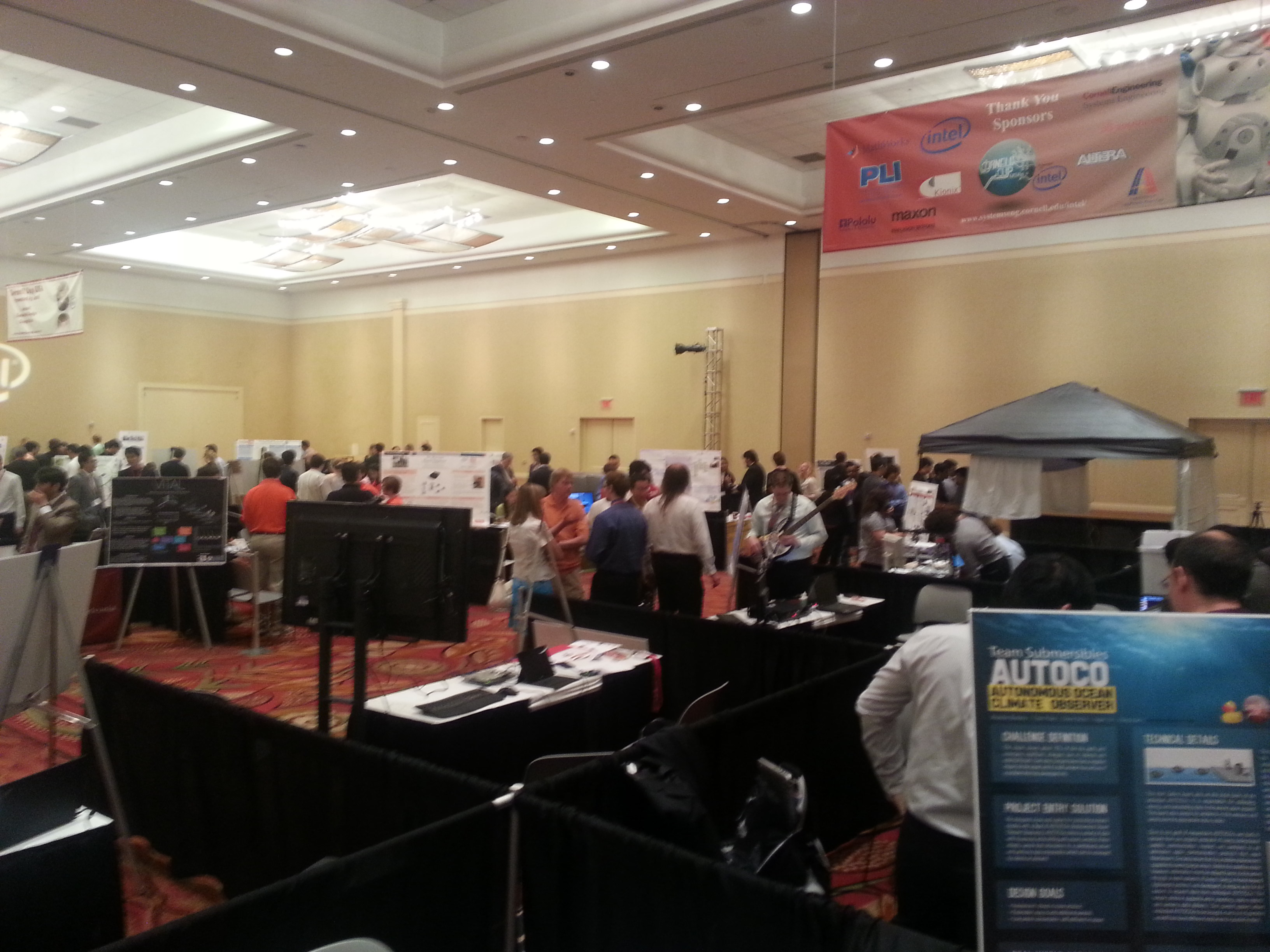 The Expo at the Cornell Cup USA 2014.